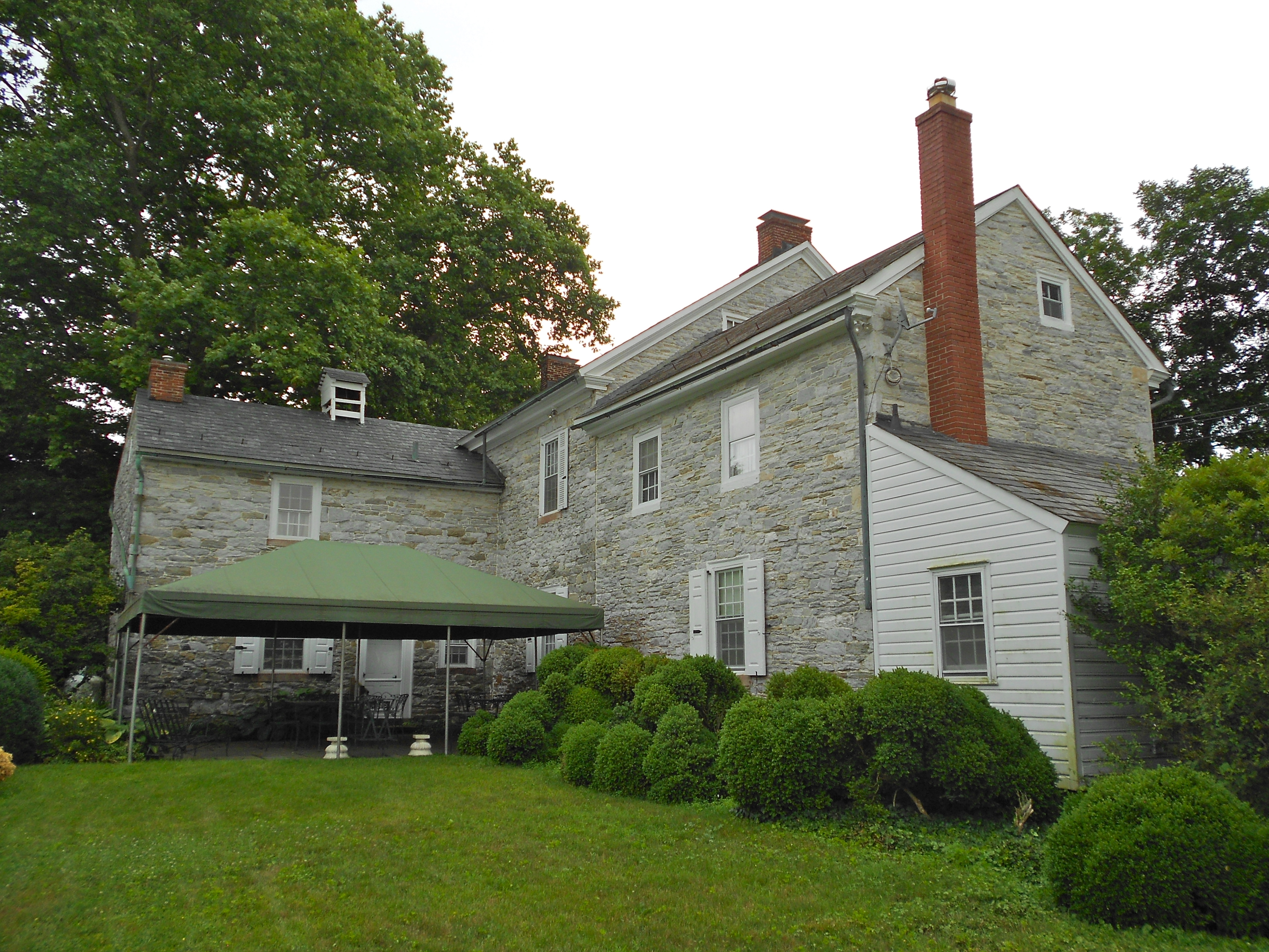 House at Hibshman Farm on the NRHP since June 27, 1980, on Springville Road, Ephrata Township, Lancaster County, Pennsylvania